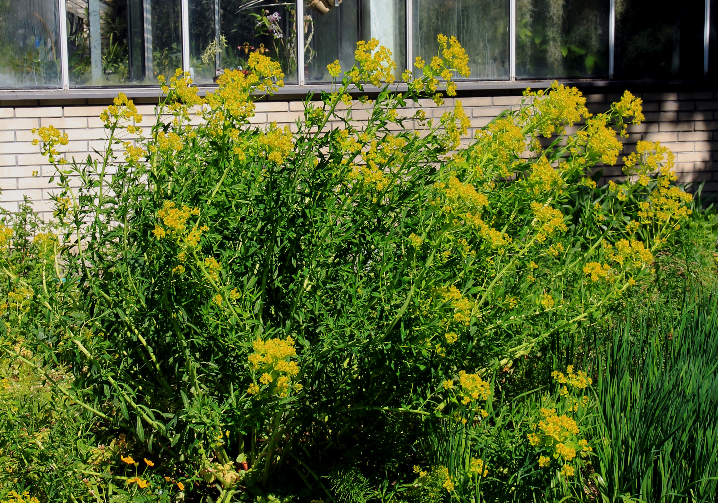 Plant Euphorbia palustris from the Botanical Gardens of Charles University, Prague, Czech Republic